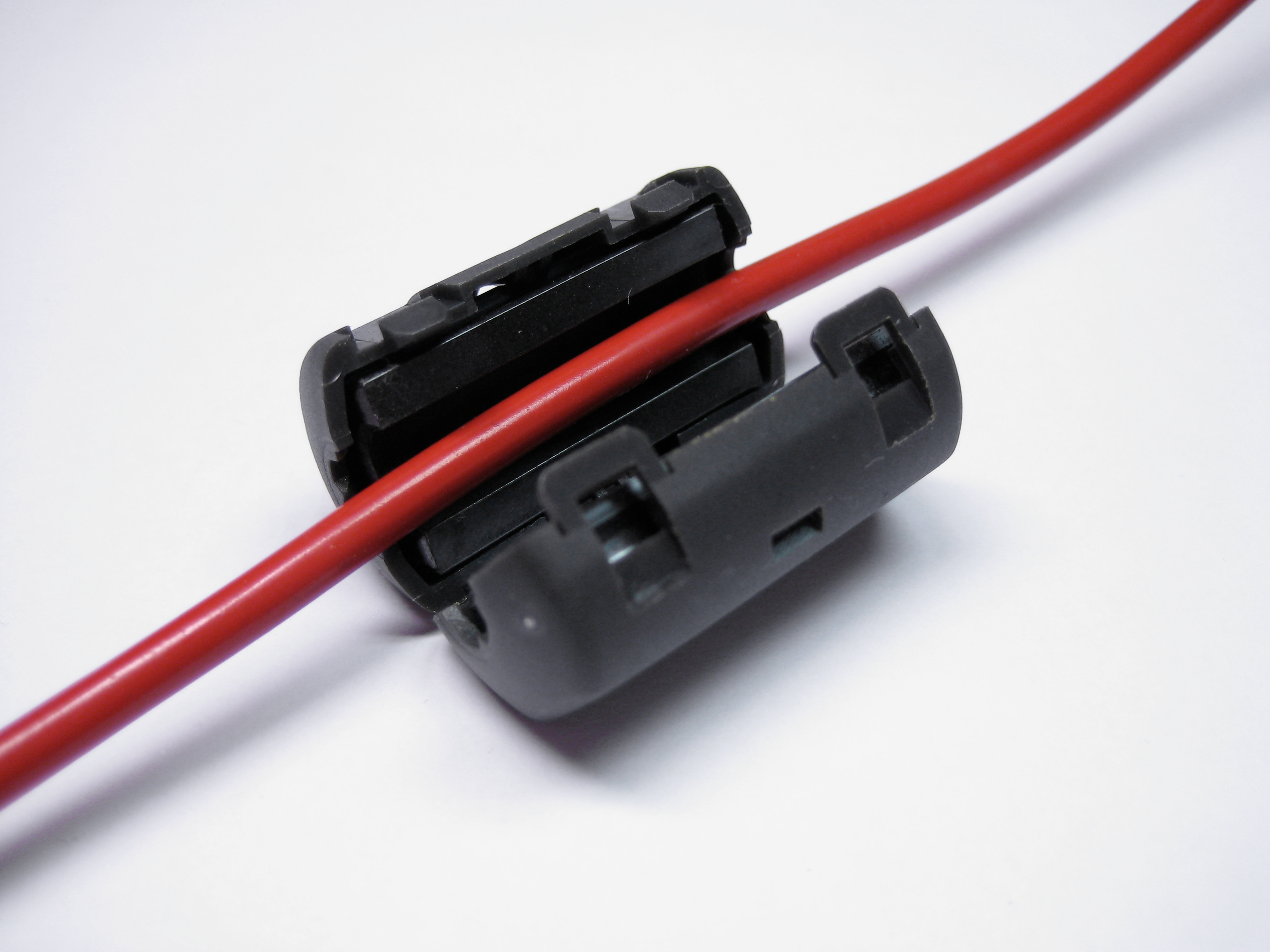 Ferrite clamp-on.